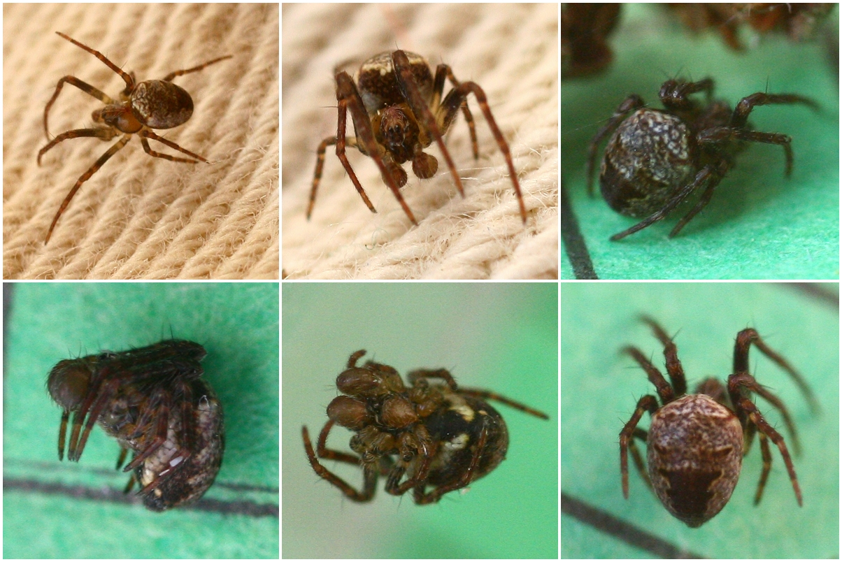 Zilla diodia (Araneidae). Bricket Wood Common, Hertfordshire, 20.04.2010. More Info... Species Summary from Spider Recording Scheme Map from NBN Gateway Pavouci CZ Jorgen Lissner - female, male